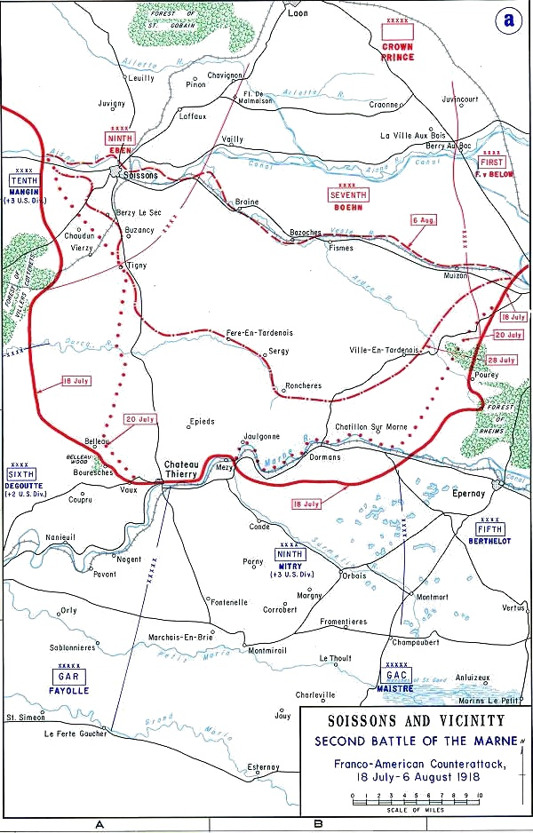 Location of the 2nd Battle of the Marne, July 1918.